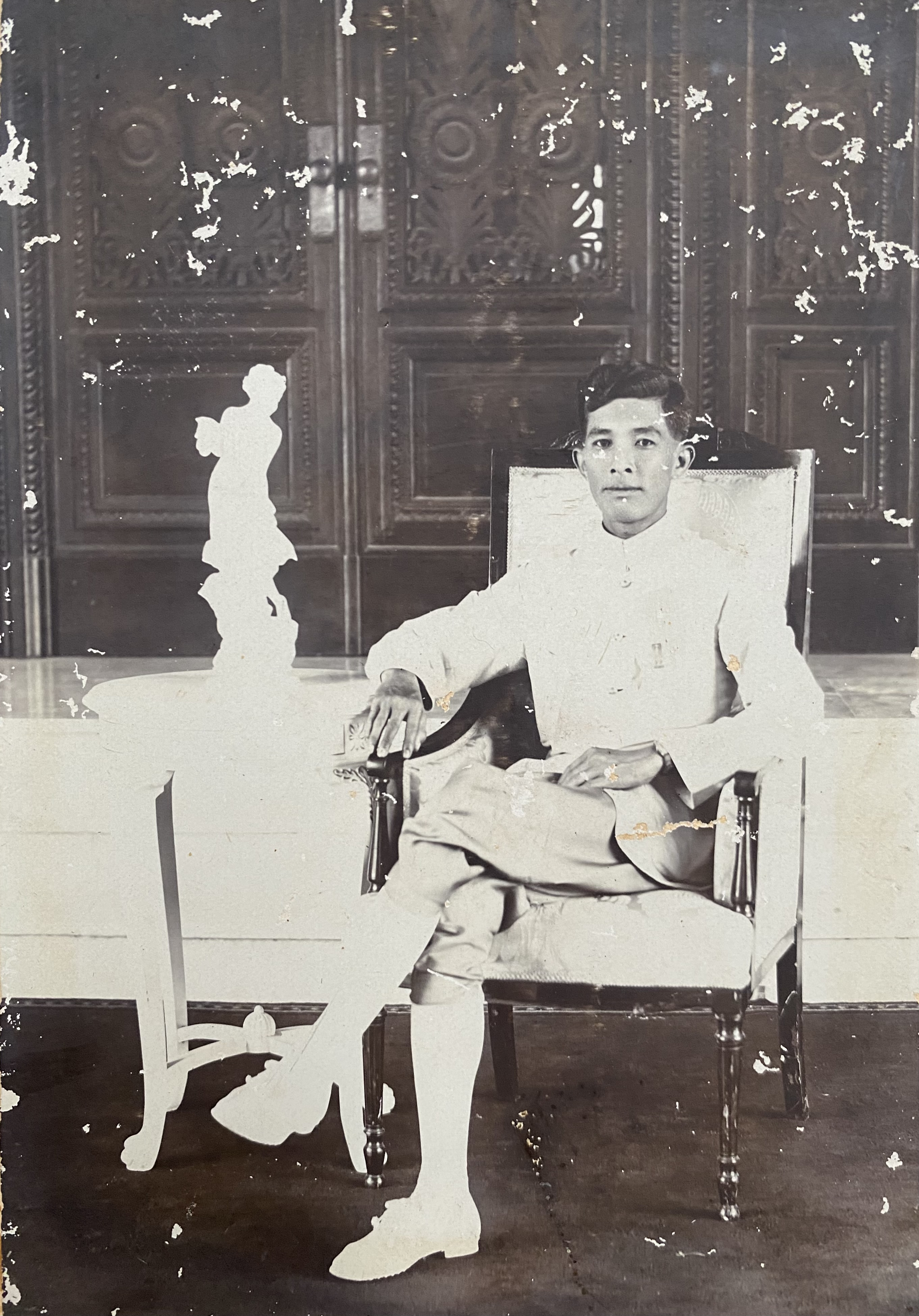 Luang Vicharn Bhandakij (Chaeo Bunnag)